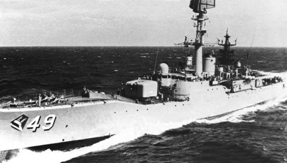 The Royal Australian Navy frigate HMAS Derwent (DE 49) underway in the Pacific Ocean, in 1980.